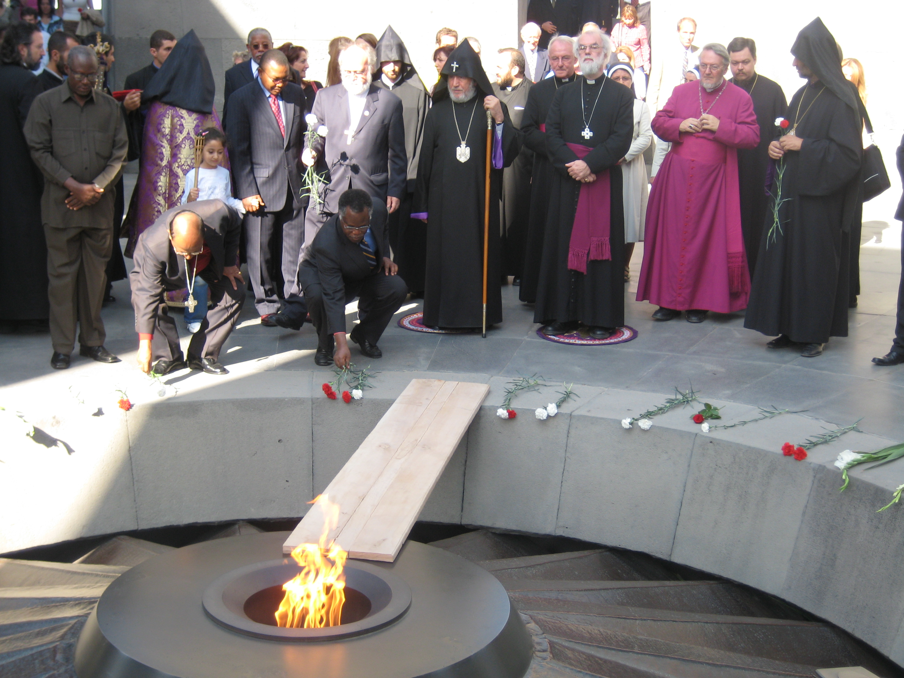 Archbishop of Canterbury Rowan Williams and Catholicos of all Armenians Garegin II at the Armenian Genocide monument in Yerevan for a torch lighting ceremony for the genocide victims in Darfur. The two men are standing on purple cloth, with Garegin on the left and Williams on the right.